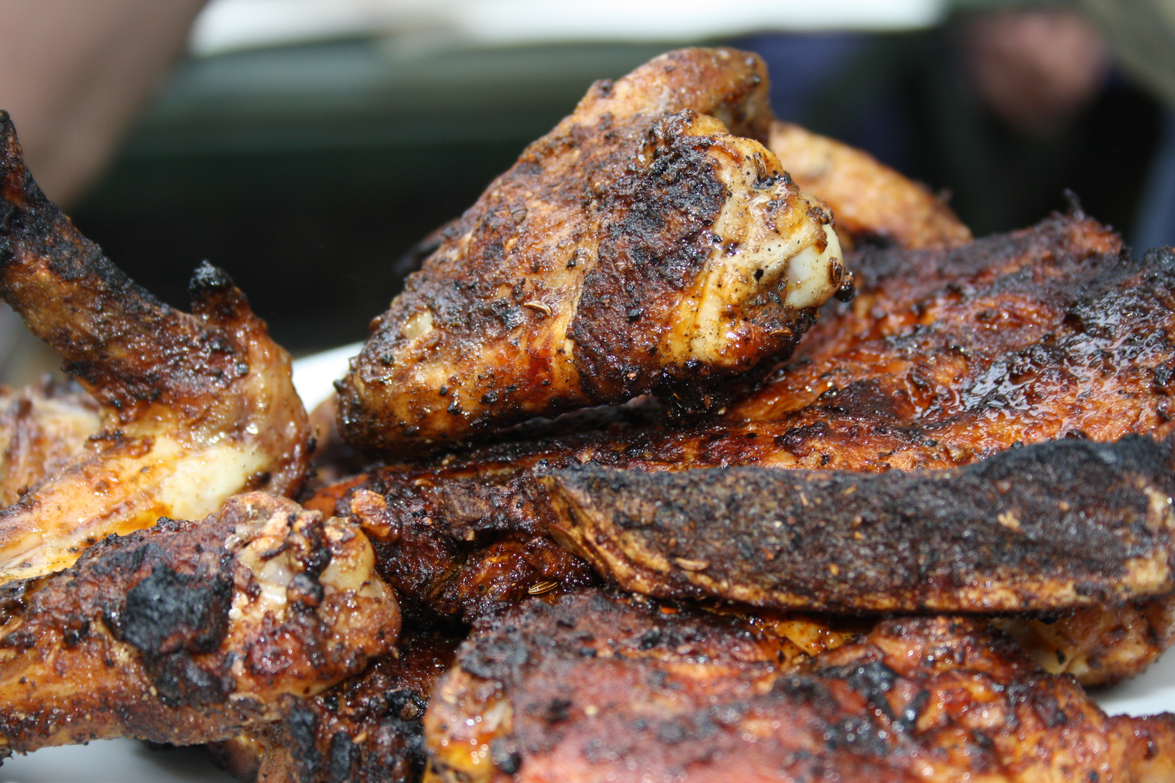 Grilled meat - chicken legs in Czech Republic.